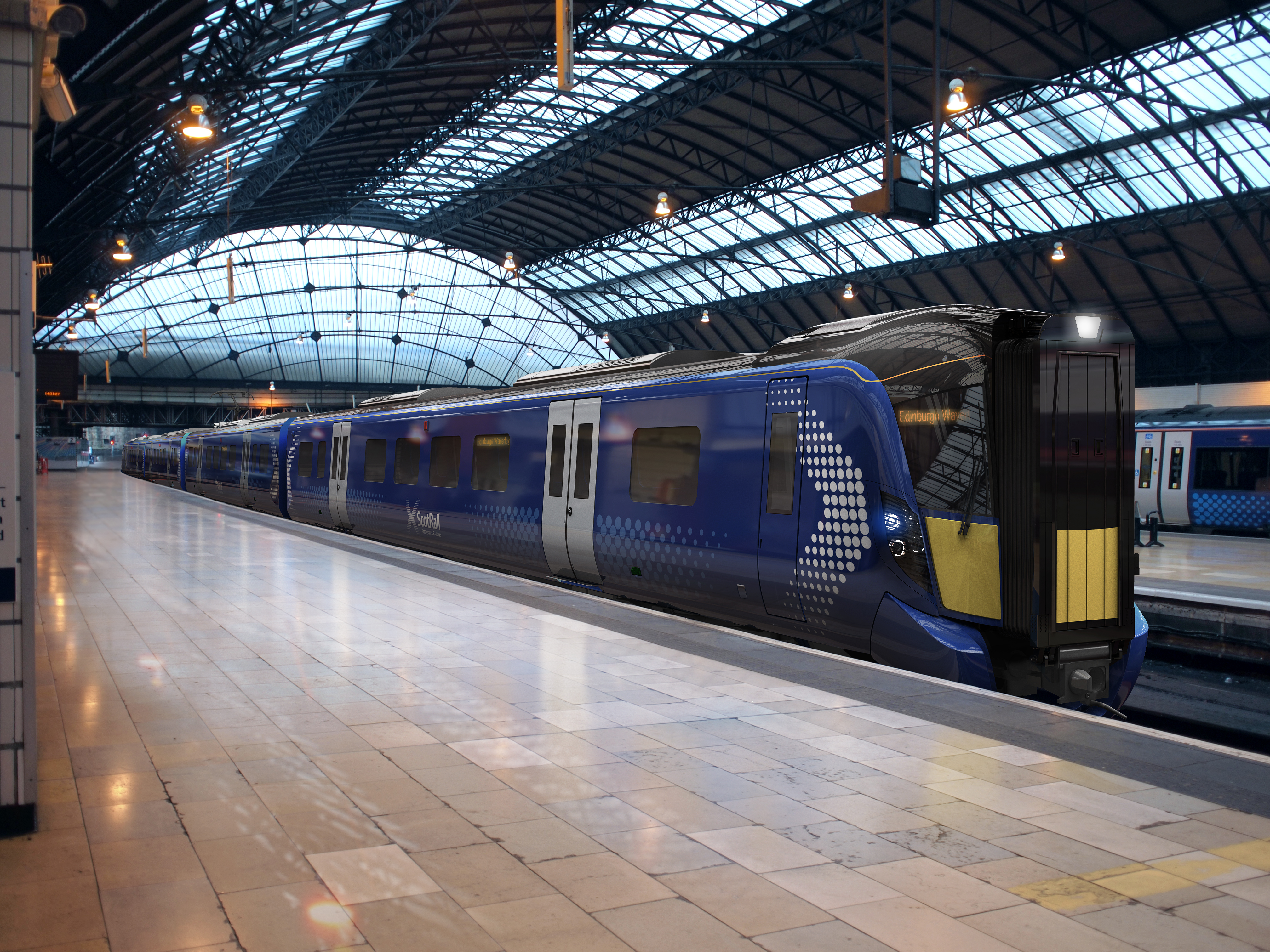 Image of the new Hitachi Rail Europe AT200 train for Abellio's ScotRail franchise